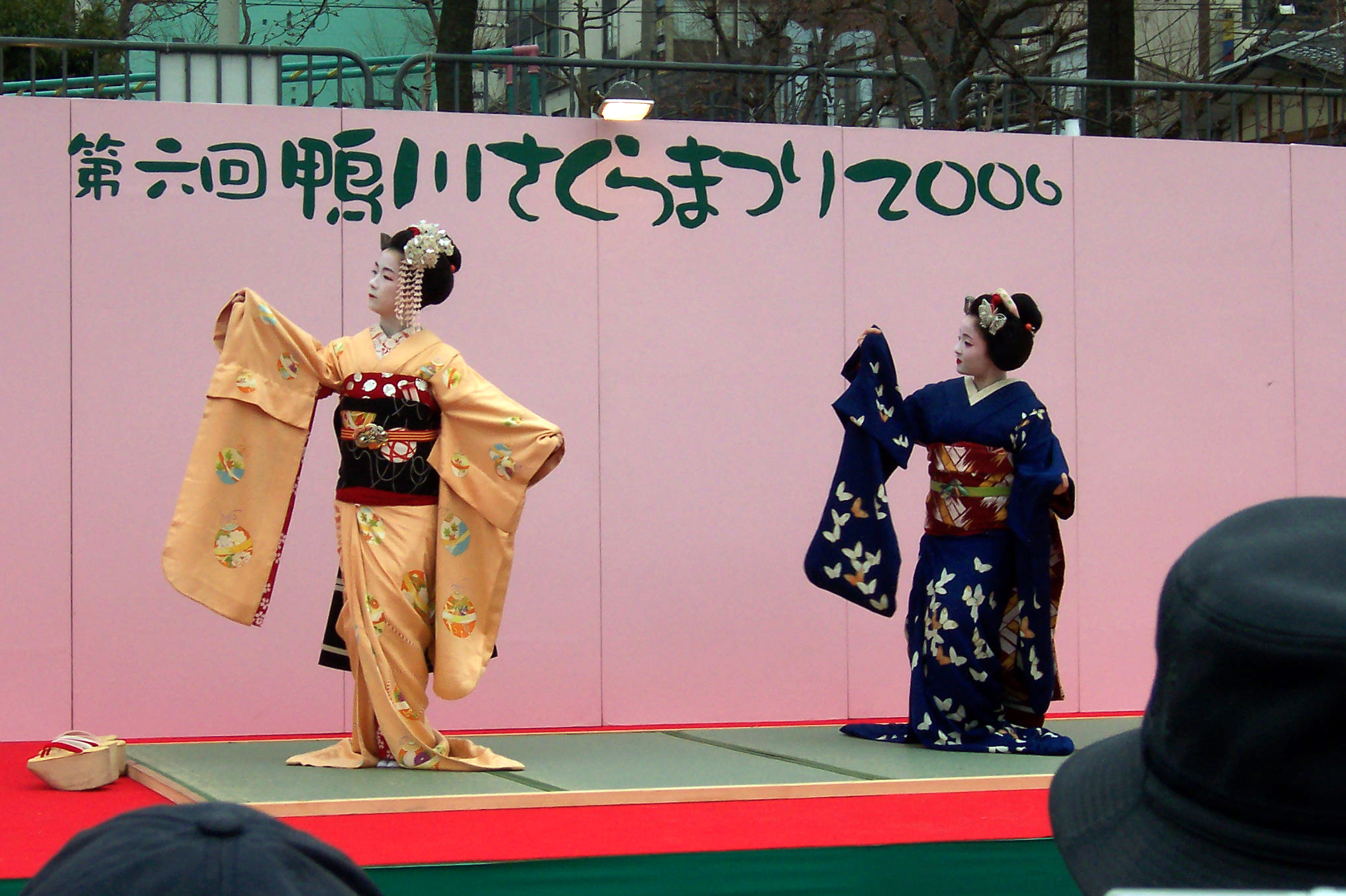 Two maiko, Kanoaki (in yellow) and Sonoka (in blue), performing a dance during the Kamogawa matsuri